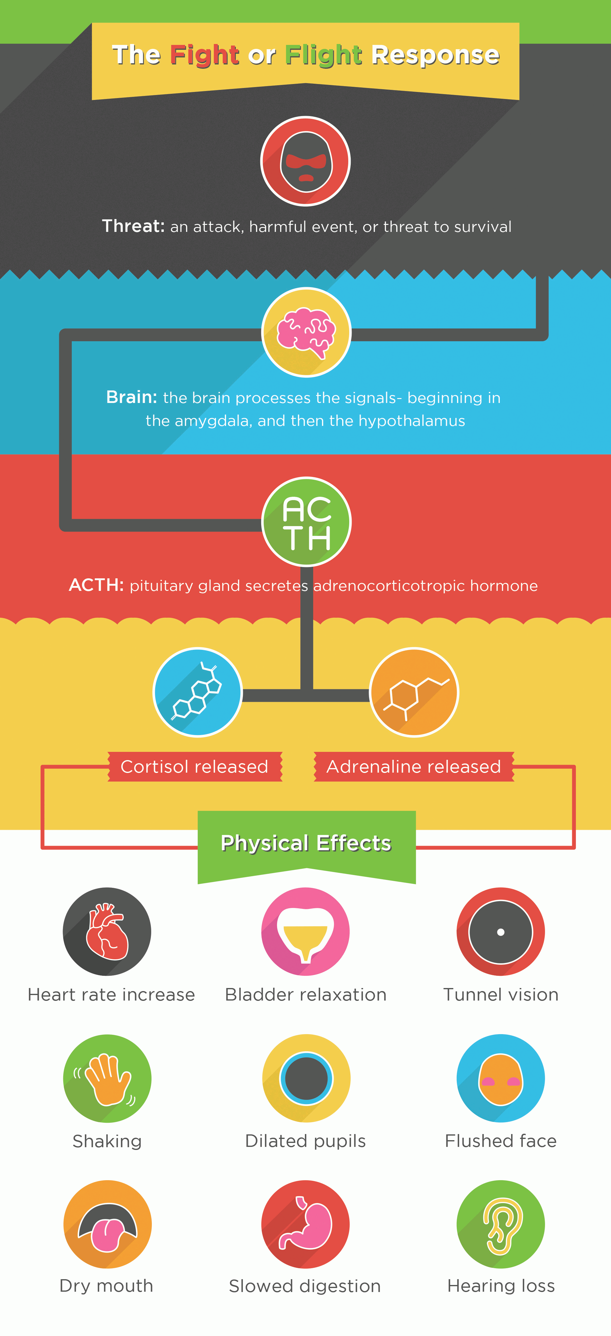 A graphic explaining the fight or flight response in humans.